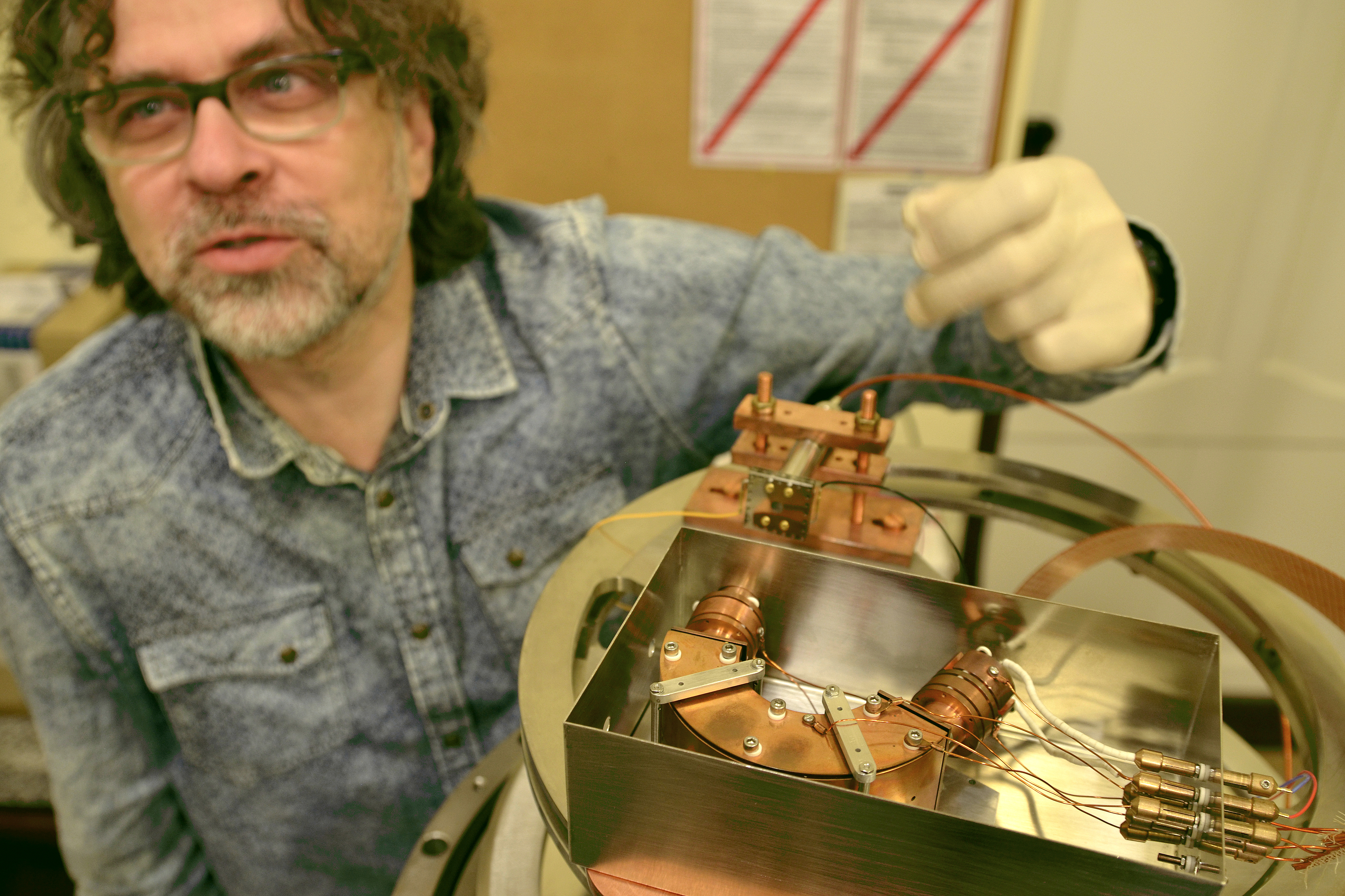 Paweł Możejko, PhD, DSc is explaining functional principle of the electrostatic electron spectrometer, used in Electronic Collisions Physics Laboratory at the Department of Atomic, Molecular and Optical Physics at Gdańsk University of Technology. Absolute total cross sections for electron scattering on molecular targets measured and computed in the laboratory were used, among others, for calibration of the Rosetta Space Probe's (launched by ESA spectrometers and for data normalization. The instrument shown in the photo is intended to be a part of a apparatus for research on interactions between low energy electrons and condensed matter.